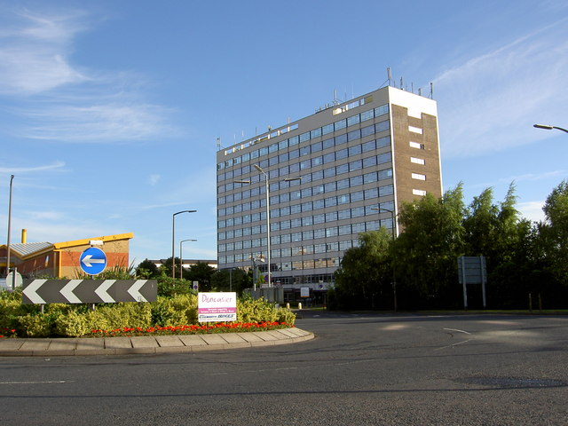 What was Coal House Once the centre of the Coal Board.